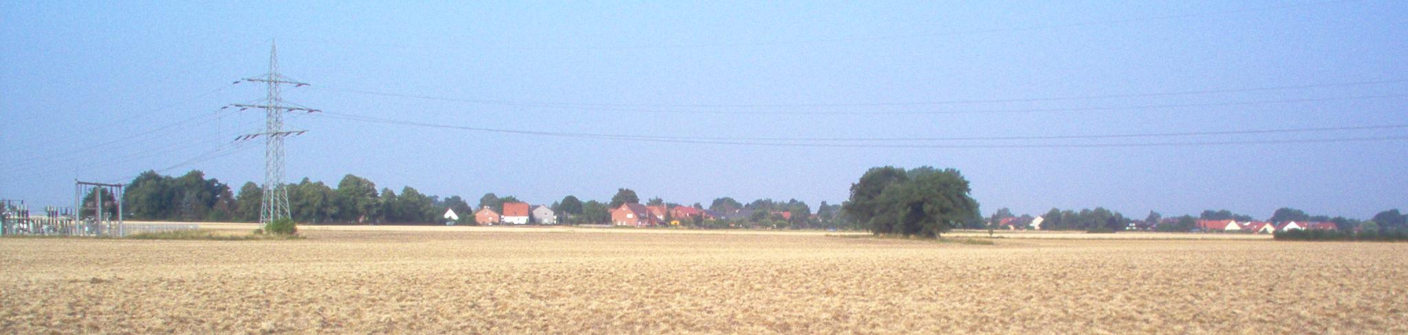 Overview of Rethen (Vordorf) from north